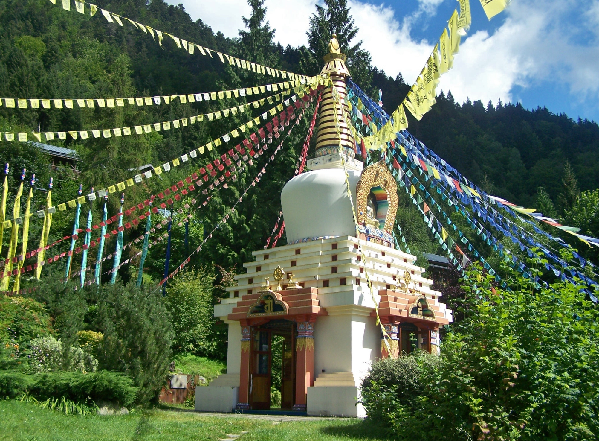 Sight of Stupa of Karma Ling in Arvillard in Savoie, France.